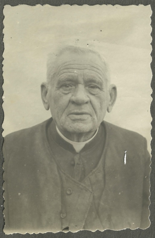 Rev. Jan Czyrek